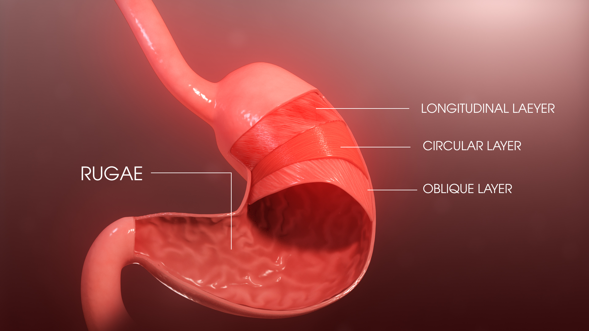 3D Medical Animation still shot of Muscular layers of stomach